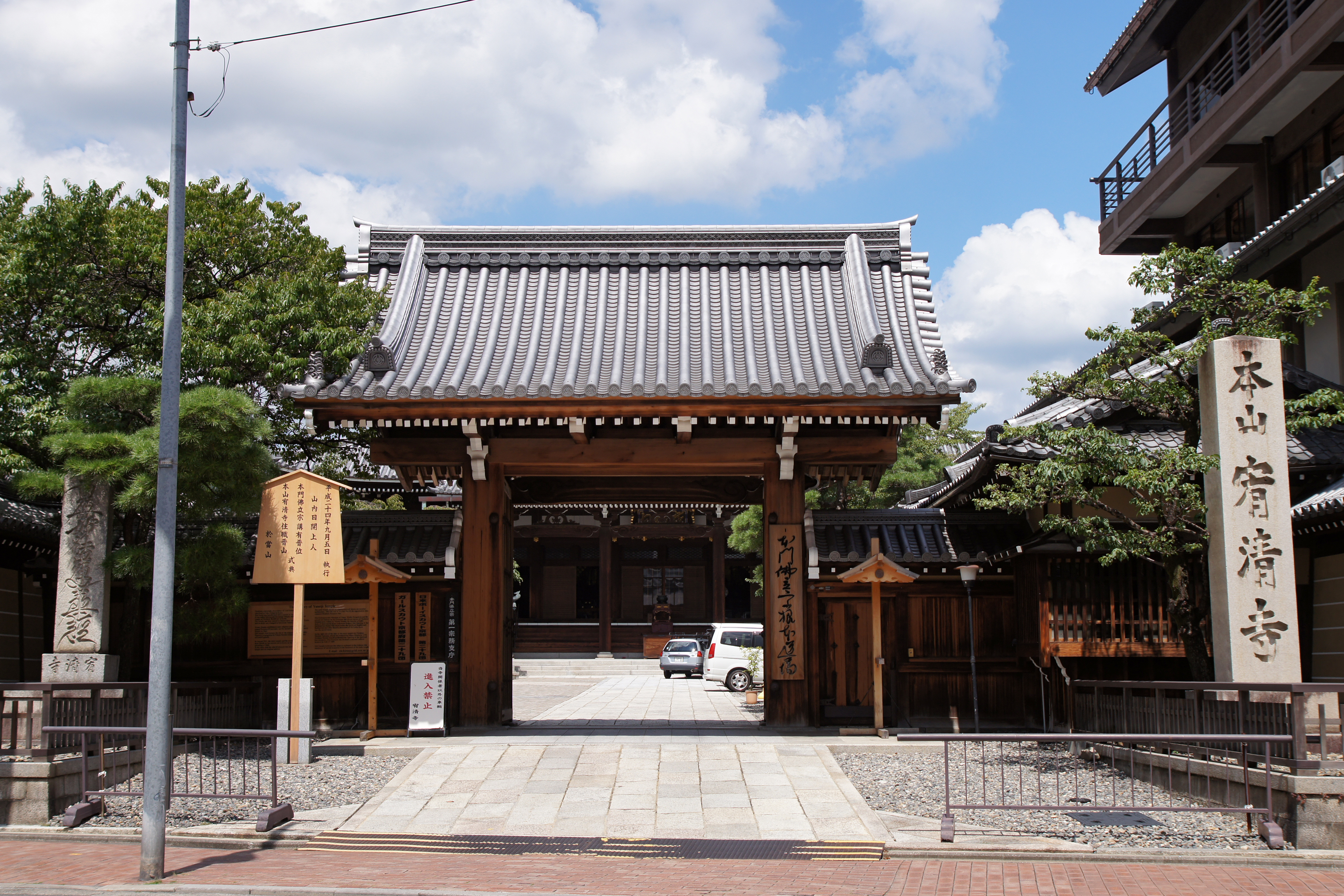 Yūsei-ji in Kamigyō-ku, Kyoto, Kyoto Prefecture, Japan